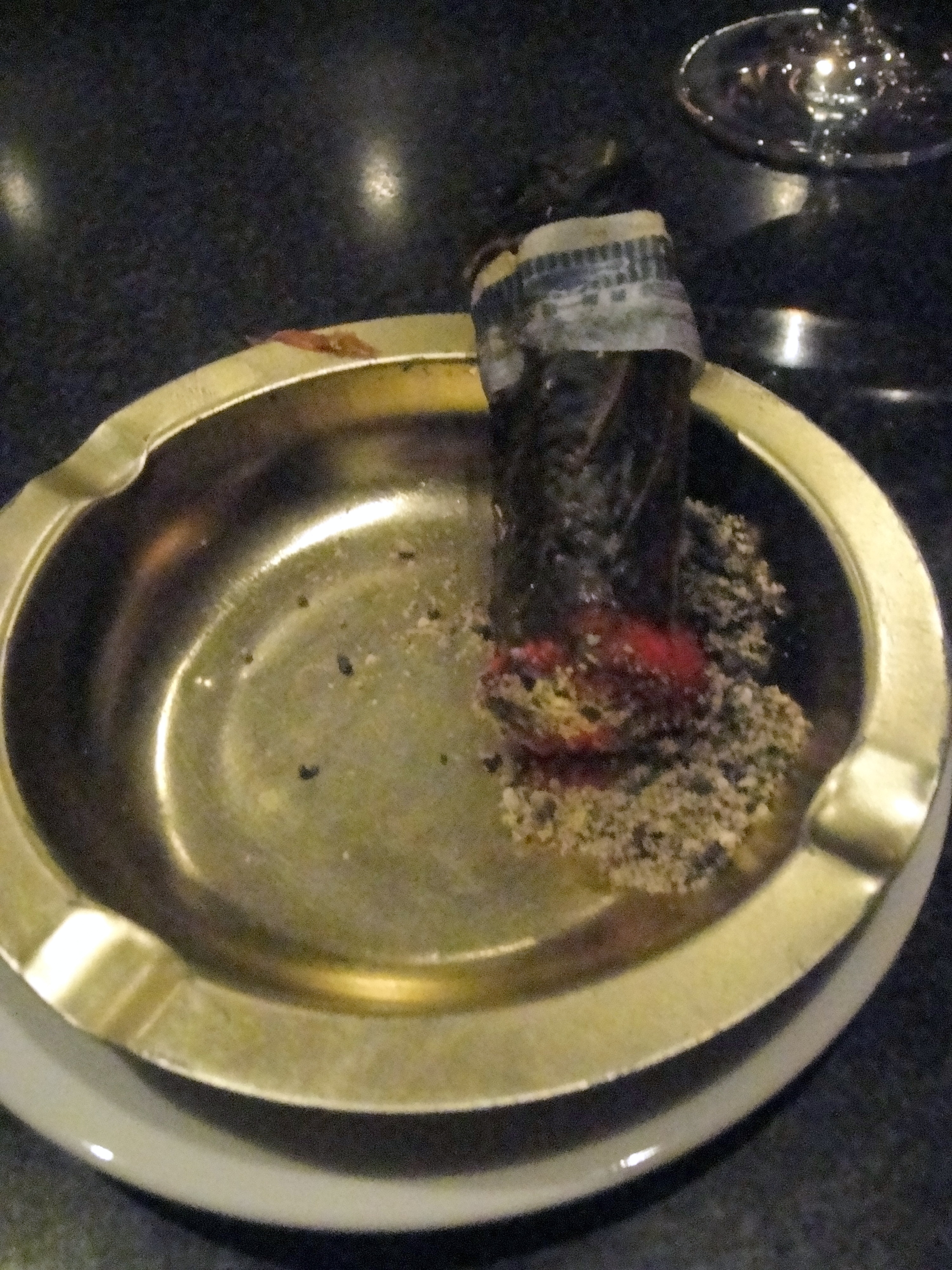 Braised and smoked pork shoulder wrapped awesome [sorry forgot some details] and finally wrapped in a leaf. Complete with edible band and "lit" (red pepper puree) and served "ashes" (toasted black and white sesame seeds with other spices) in an ash tray.